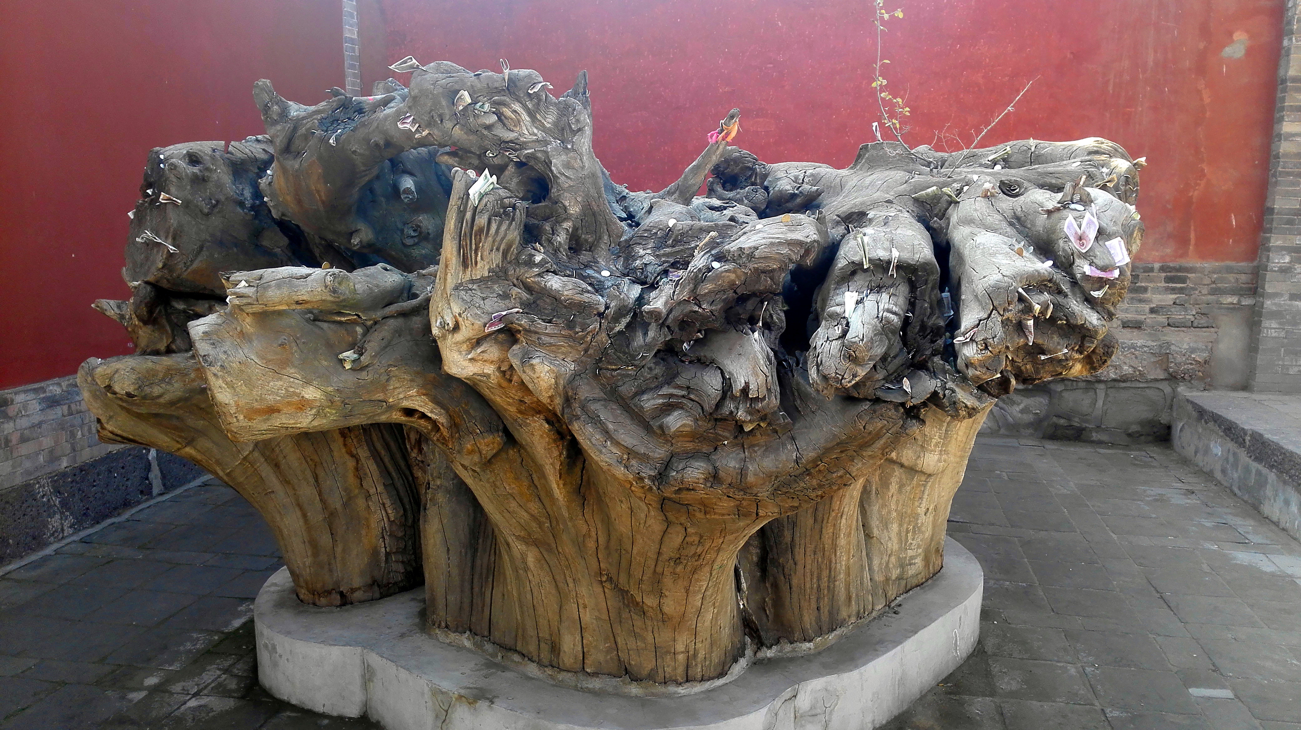 Coins and Banknotes Inserted into a Root, photographed at Dazhao Wuliang Template in Hohhot